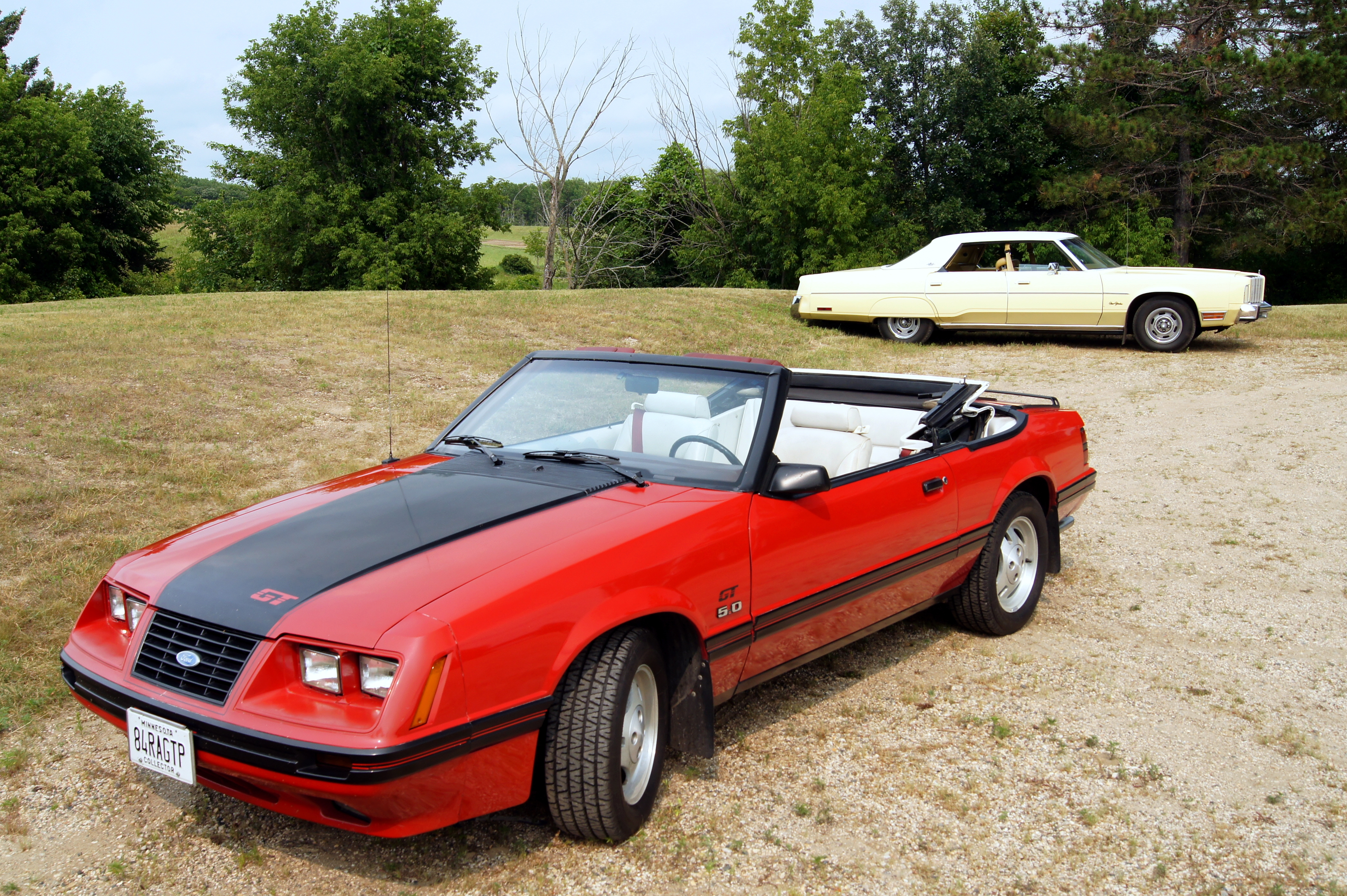 Willmar Car Club Picnic July 19, 1014 Rodvik Park New London Minnesota Cliff reserved an excellent location for the Club Picnic. There was great weather, food and company. Photos of other Willmar Car Club events